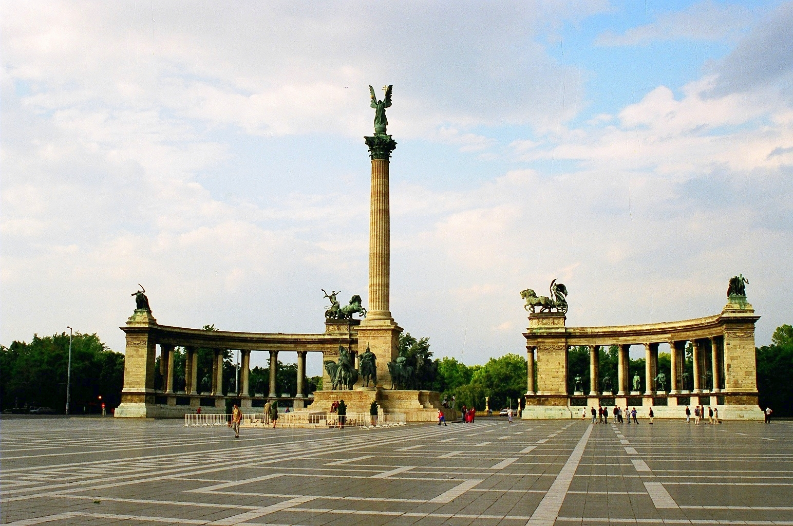 Heroes' Square (Budapest) in 1996.1